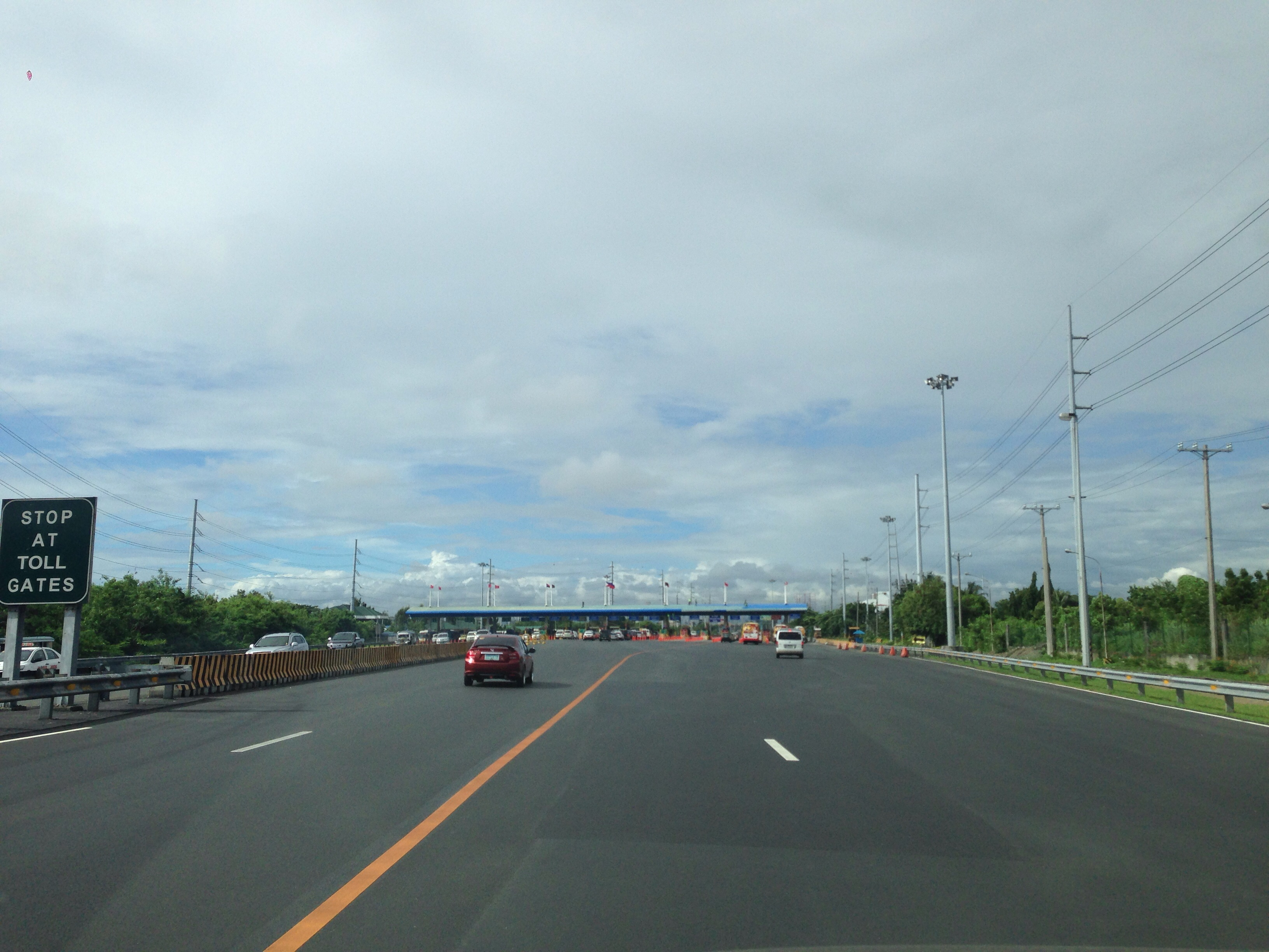 Approaching the Manila–Cavite Expwy (Coastal Road) Toll Plaza in Las Piñas, Metro Manila, Philippines